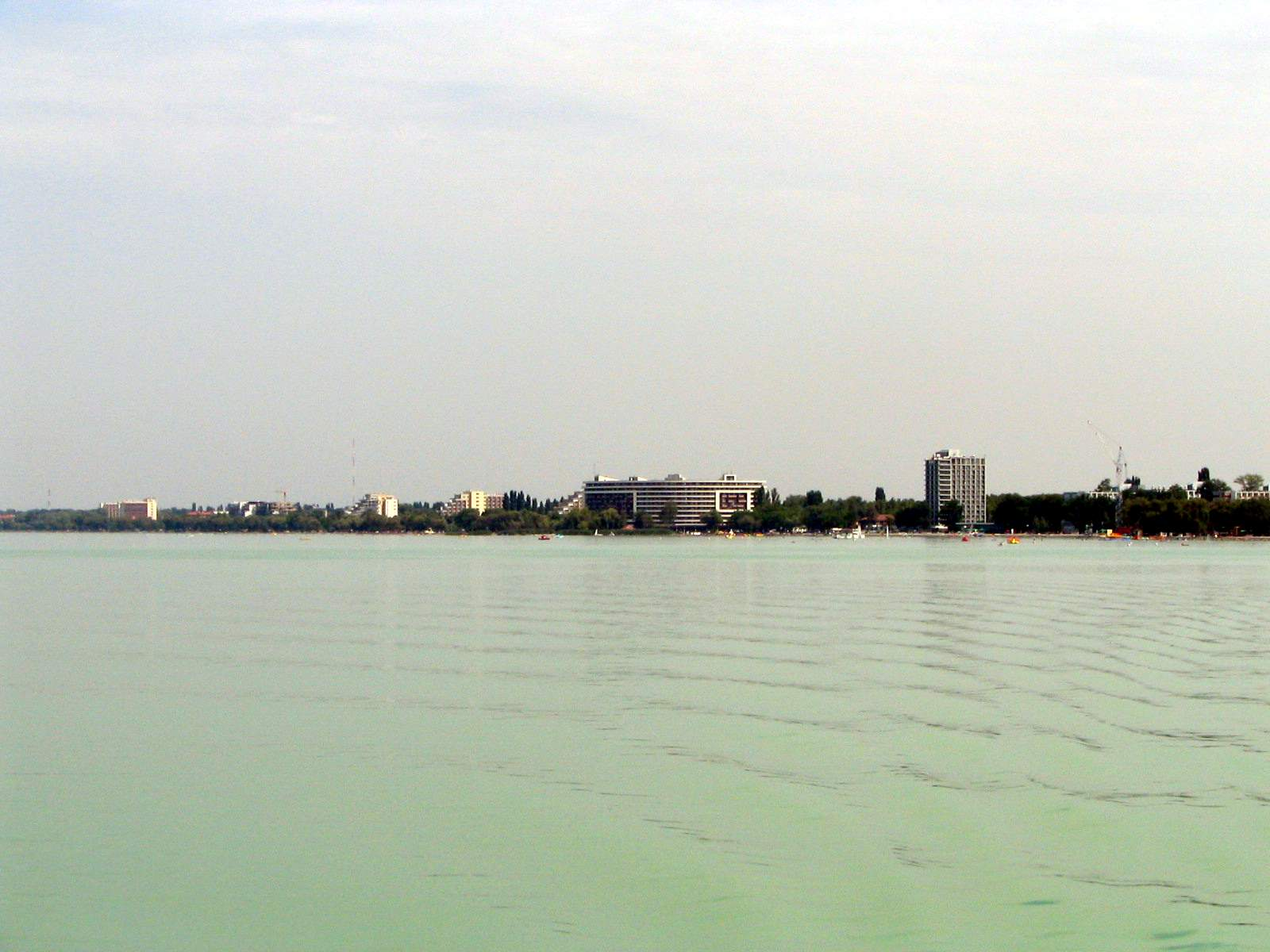 View of Siofok fron Balaton toward Szabadifűrdő